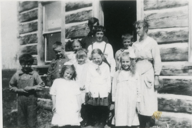 First class at Somme School near Glen Leslie. The Glen Leslie Presbyterian Church was used as a classroom until the school was built in 1928.